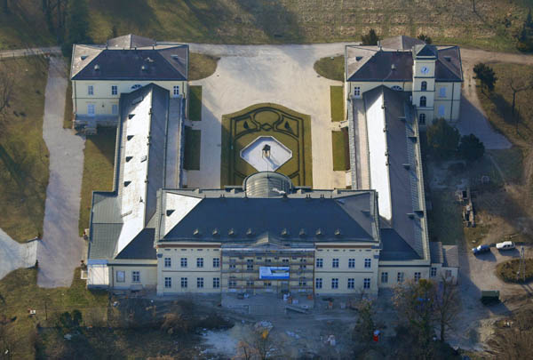 Károlyi castle, Fehérvárcsurgó, Fejér county, Hungary, aerial photography